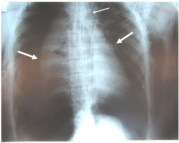 Collapsed lungs in a patient with tracheobronchial injury: "complete disruption of the right bronchus". Caption reads, "Bedside chest radiography performed immediately after admission. Bilateral pneumothorax (large arrows), pneumomediastinum (thin arrows) and extensive subcutaneous emphysema are visible.